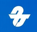 Taketoyo Aichi chapter